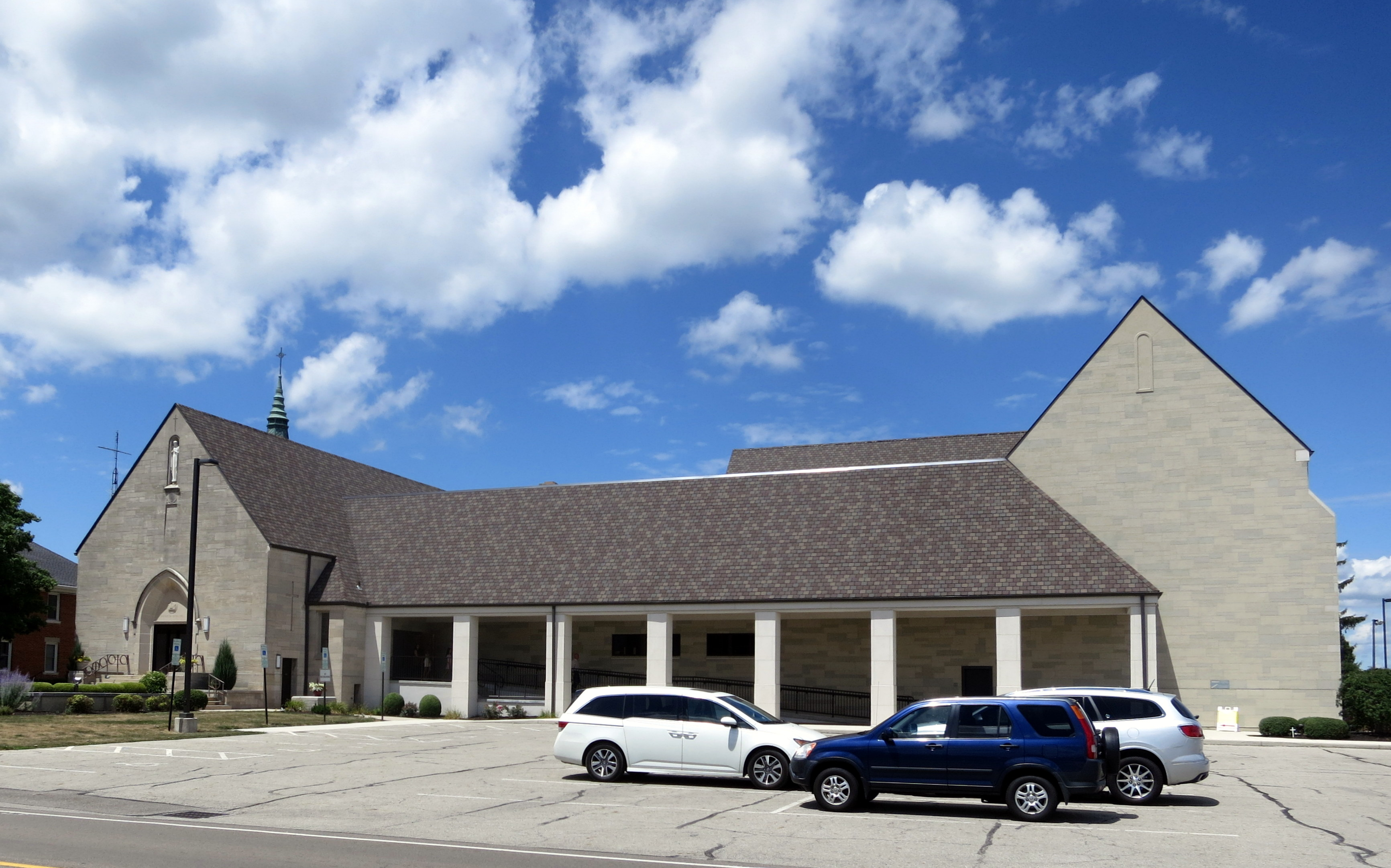 Sacred Heart of Jesus Catholic Church (McCartyville, Ohio) - exterior